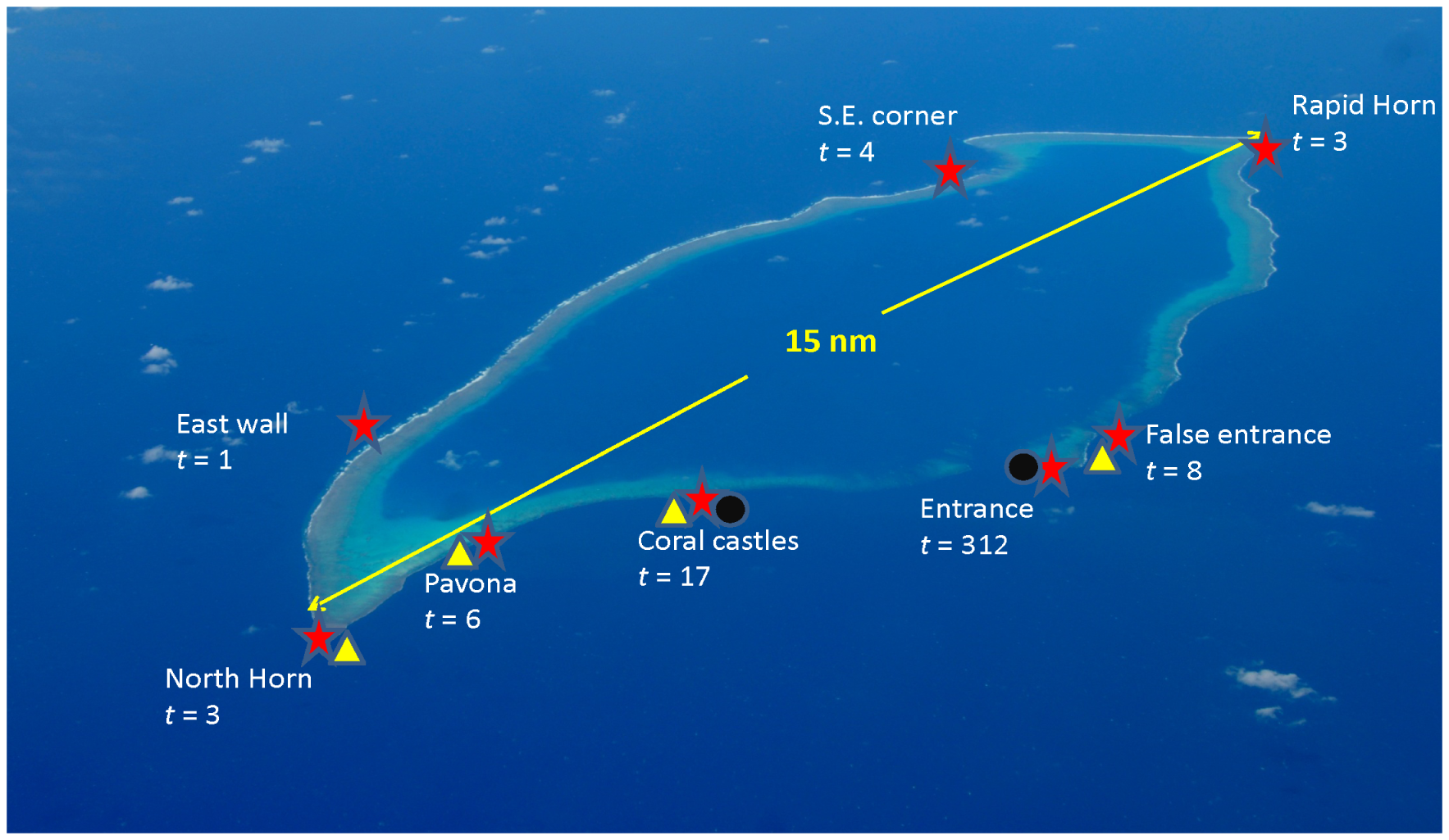 Original caption: "Nautilus sampling at Osprey Reef by trapping and Baited Remote Underwater Video Systems (BRUVS) and Remotely Operated Vehicle (ROV) camera records. Nautilus trapping was conducted at eight sites (red stars, t = number of samples) around Osprey Reef totalling 354 samples of which 92% were at the Entrance site. (BRUVS) deployments (black circles) were undertaken at two sites while (ROV) dives (yellow triangles) were conducted at four sites."